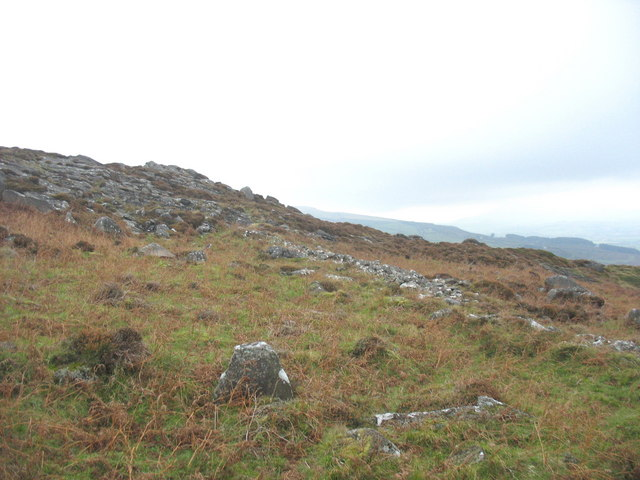 Internal wall dividing the Creigiau Gwineu hillfort into two sections 617422 616980